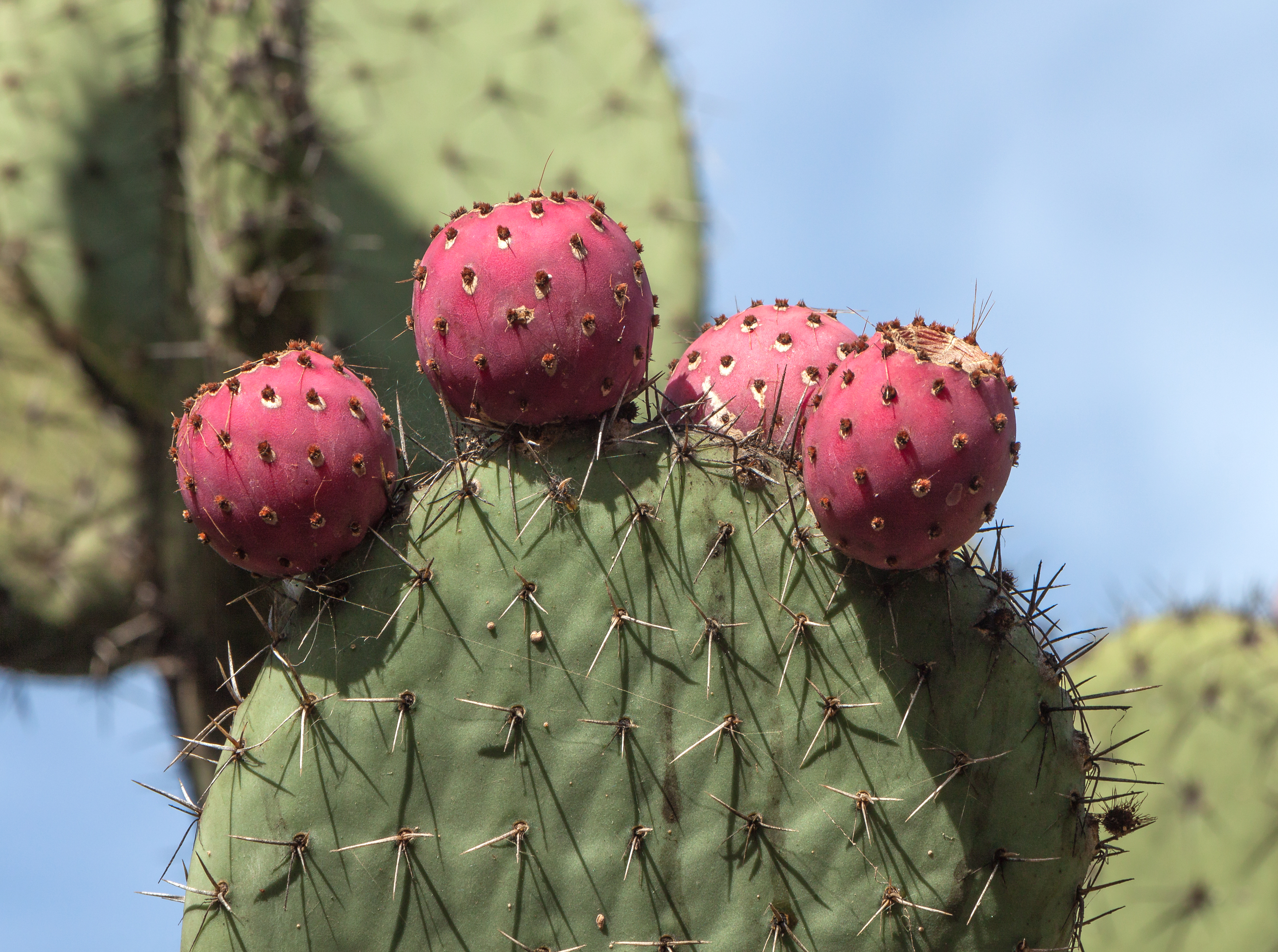 Opuntia streptacantha Lem.; Fruits; Jardín Botánico Canario Viera y Clavijo, Gran Canaria, Canary Islands, Spain.